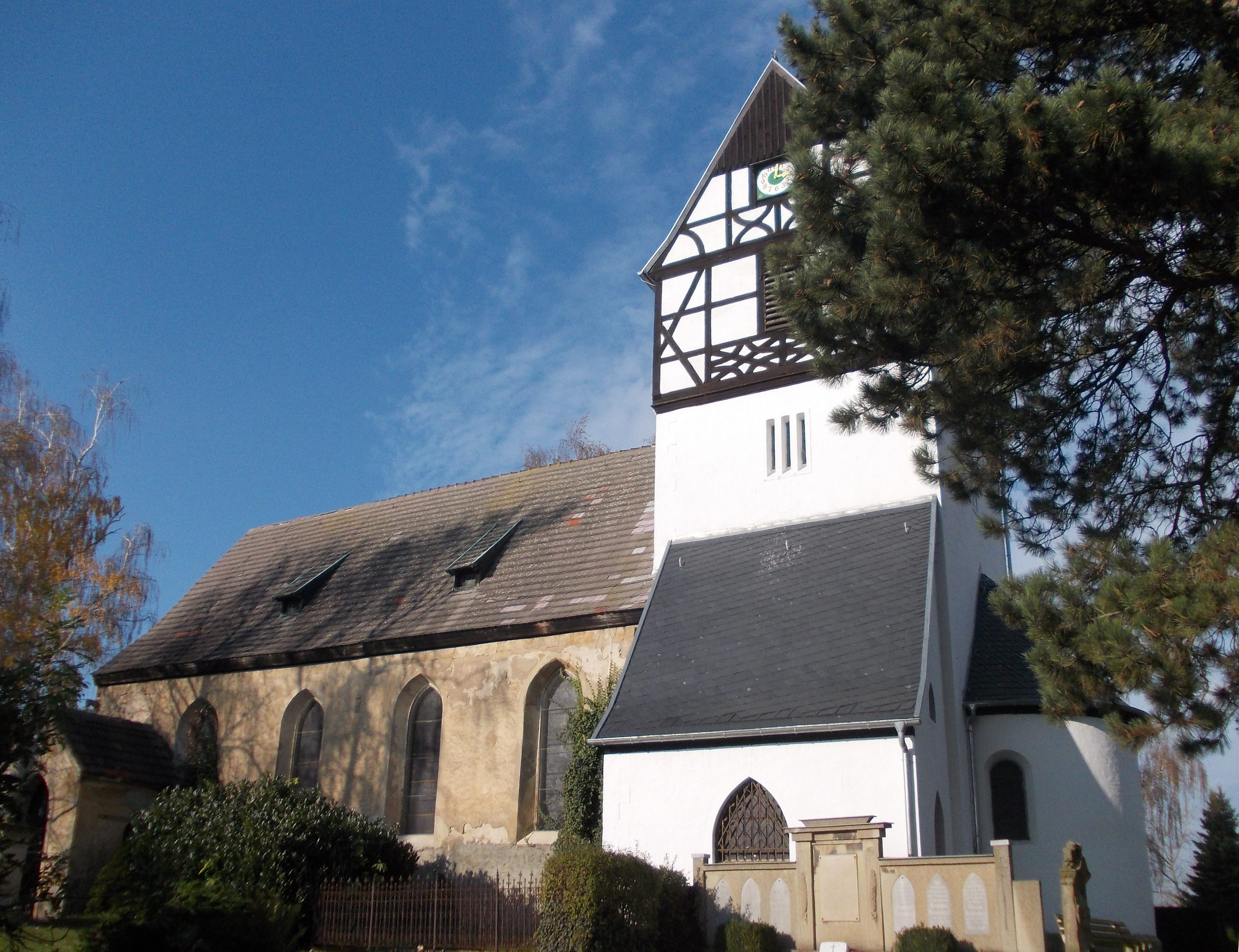 Spora church (Elsteraue, district: Burgenlandkreis, Saxony-Anhalt)